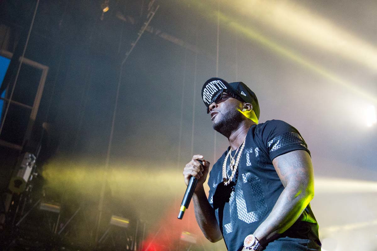 Young Jeezy 2014 Under the Influence